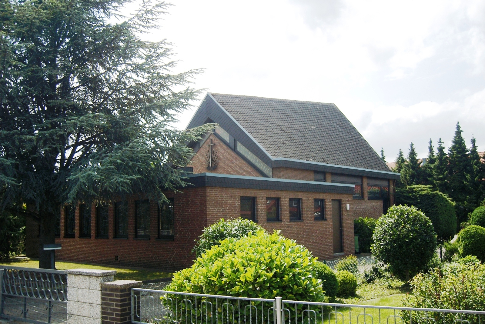 Newapostolic Church Nordstemmen, congregation Leinetal